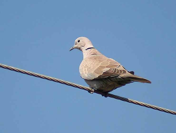 Eurasian Collared Dove Streptopelia decaocto at Hodal in Faridabad District of Haryana, India.